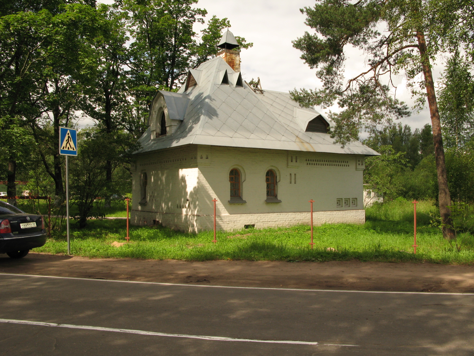 Пос. им. Морозова_Сторожка храма